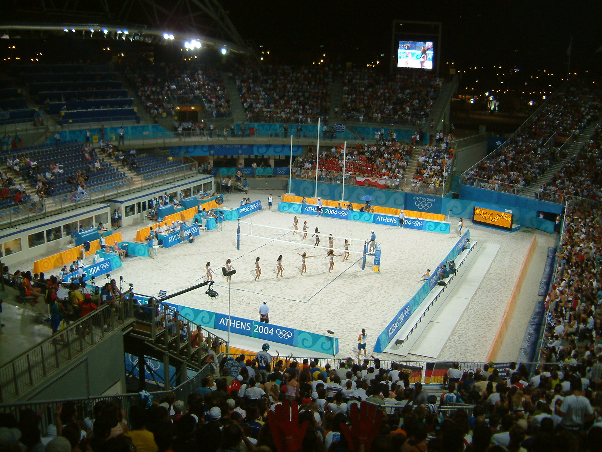 Beach volley event at the Olympic Games of Athens 2004.